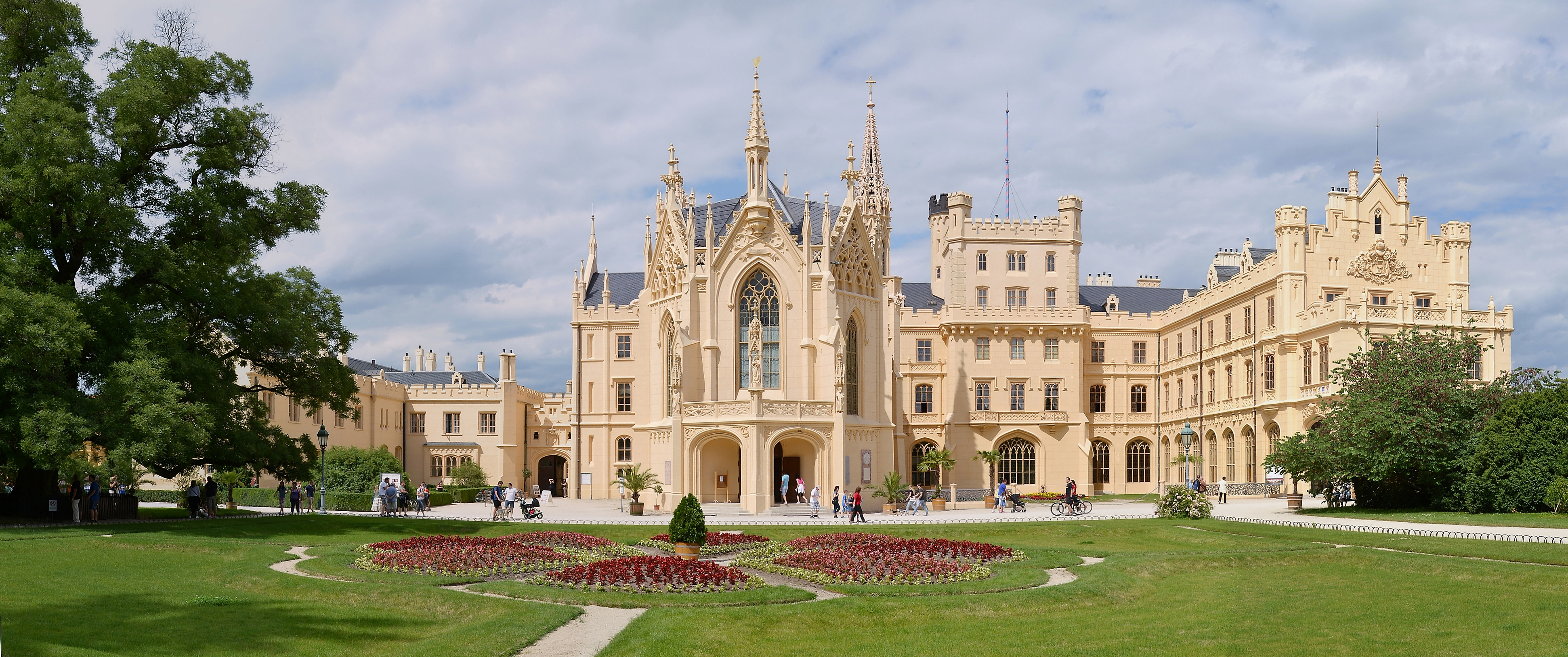 Castle Lednice (Eisgrub), Moravia